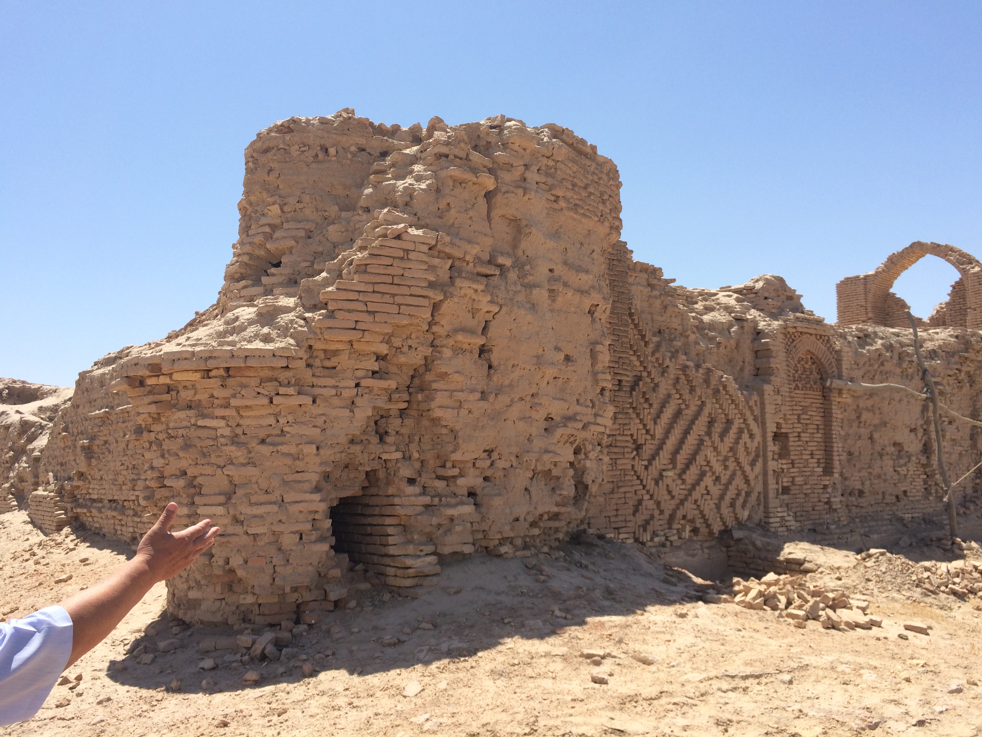 Tower and wall of the Dayahatyn caravansaray, Lebap velayat, Turkmenistan